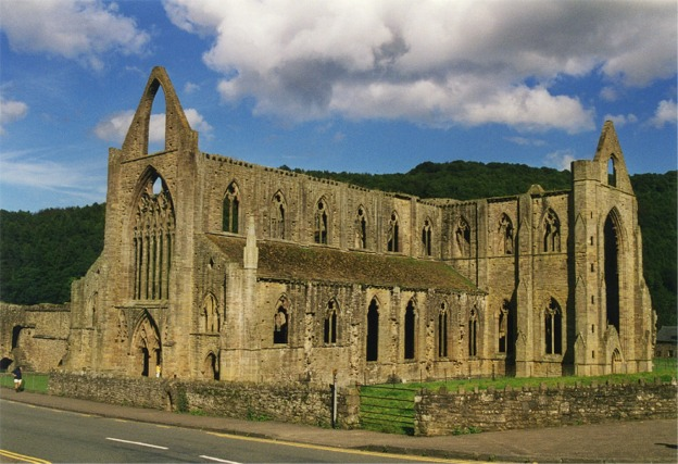 Tintern Abbey